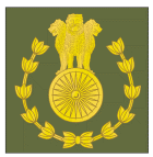 Regimental Havildar Major Rank Insignia of the Indian Army